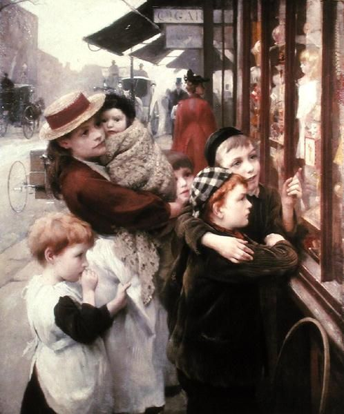 The Toy Shop